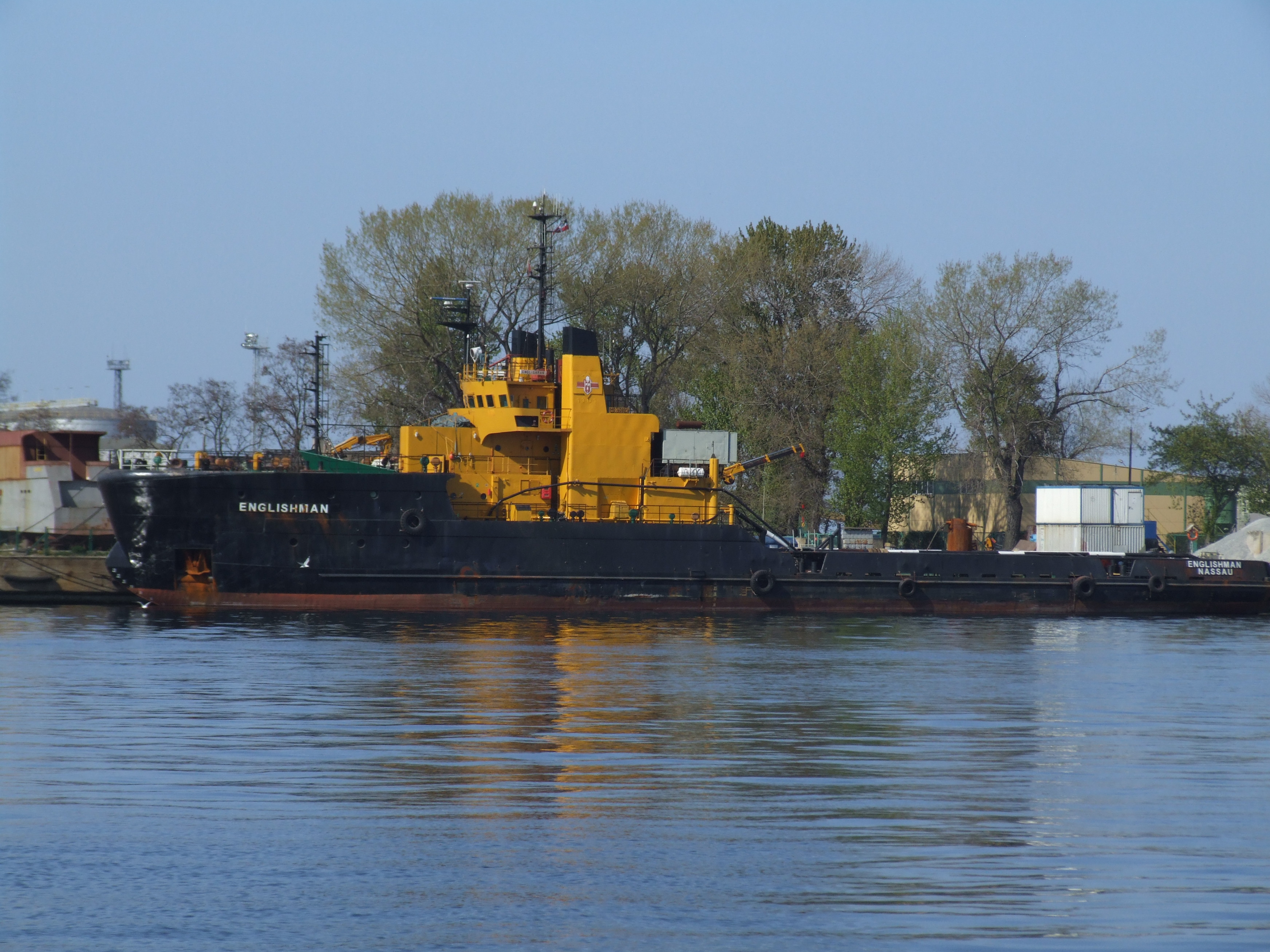 Englishman (ex-Schepelsturm-95, built by Elsflether Werft, Elsfleth (392)) in Gdynia